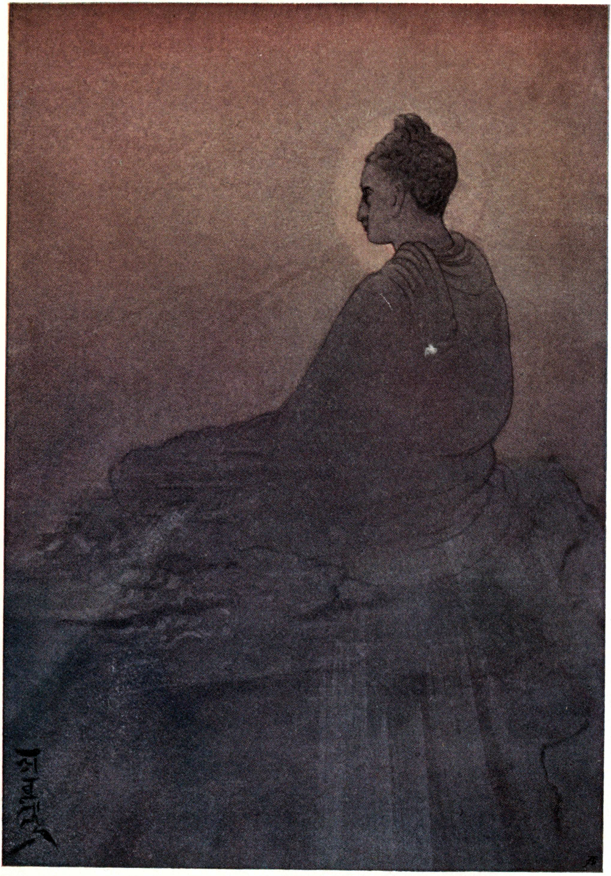 Myths of the Hindus & Buddhists (1914): Frontispiece "The Victory of Buddha" by Abanindranath Tagore